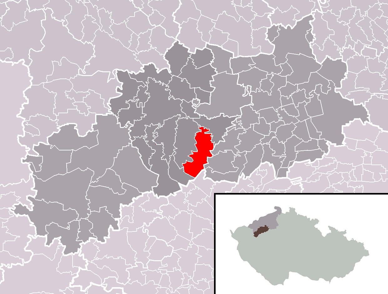 Location of Tuchořice municipality within Louny District and administrative area of Žatec as a Municipality with Extended Competence.